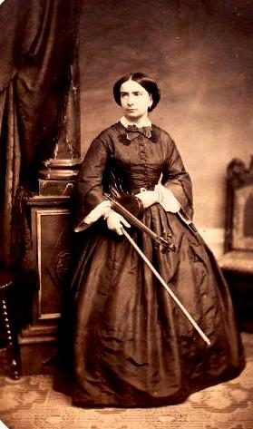 Picture of Teresa Milanollo